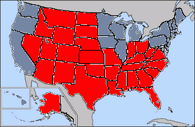 Presidential elections in the USA 2004, final results